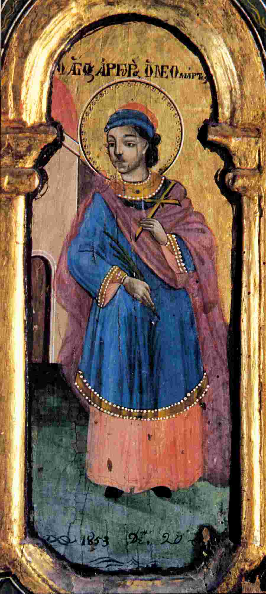 Saint Argyrios from Epanomi icon